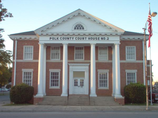 This is Polk County Court House No. 2 in downtown Cedartown. Northwest corner of Prior Street and S. Main St. (US 27). Built in 1935, the building was originally the city hall of Cedartown, but has served as a courthouse since 1985. This picture was taken by Karl Ward on 20 September 2004. Copyright 2004 Karl Ward. References Polk County Court House No. 2